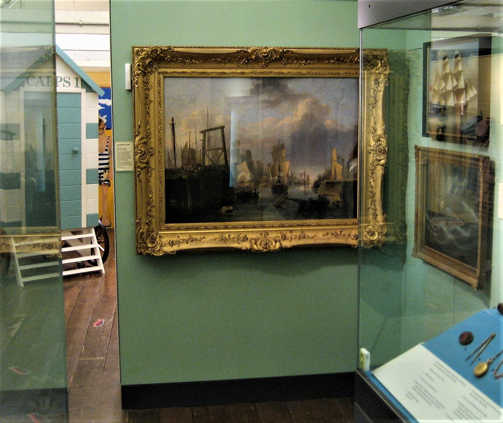 Paintings in the Tide and Time Museum, Great Yarmouth, including a landscape by John Berney Crome ('Removal of Old Yarmouth Bridge (1837))